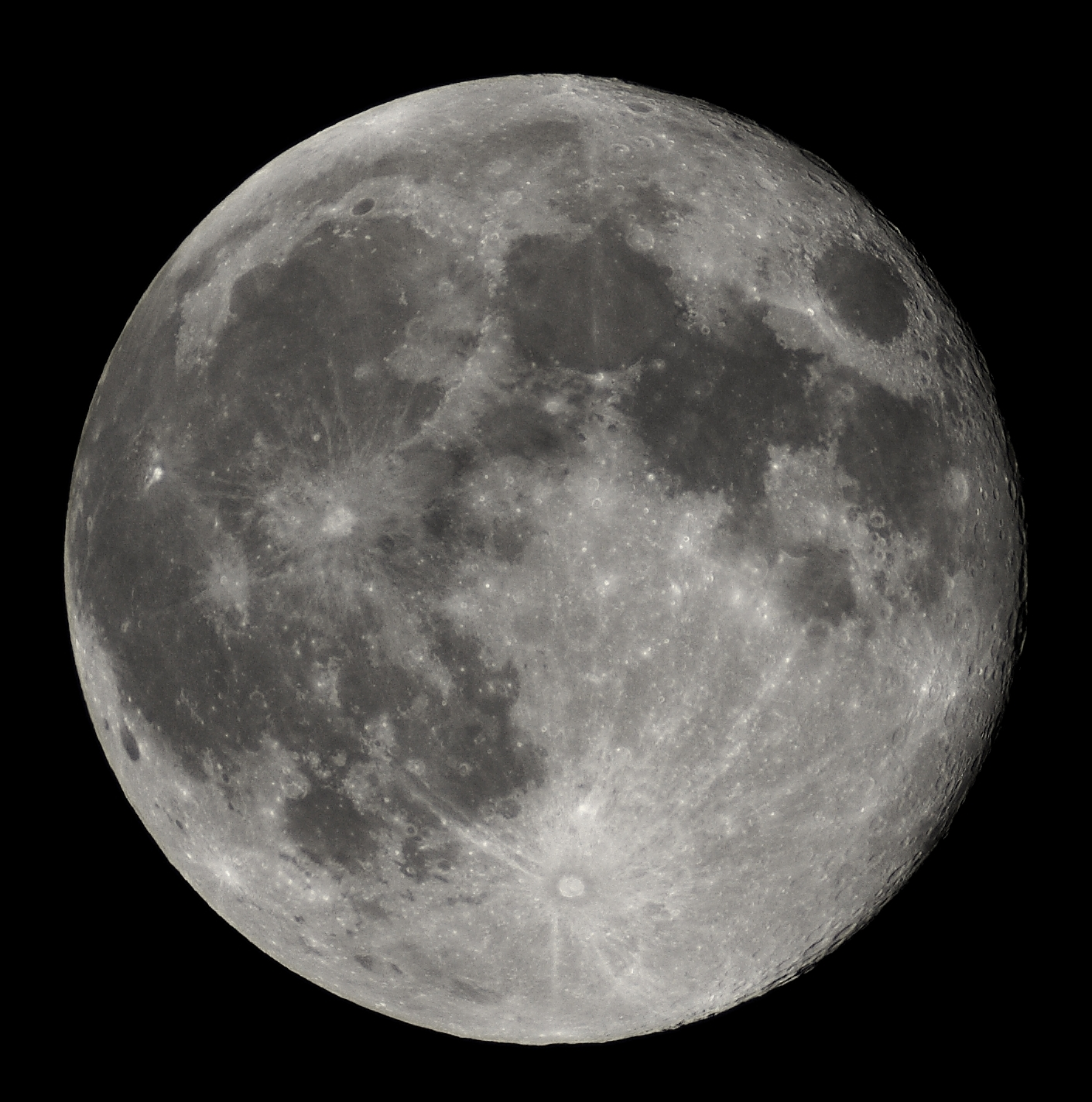 Nearly Full Moon view from earth In Belgium (Hamois).